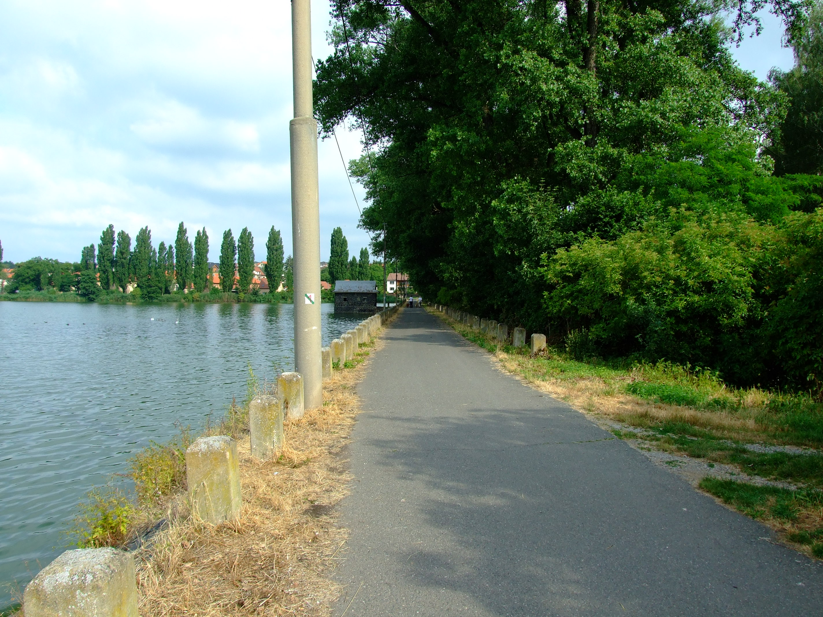 Litovice pond, one of tree ponds in Hostivice near Prague, CZhelp